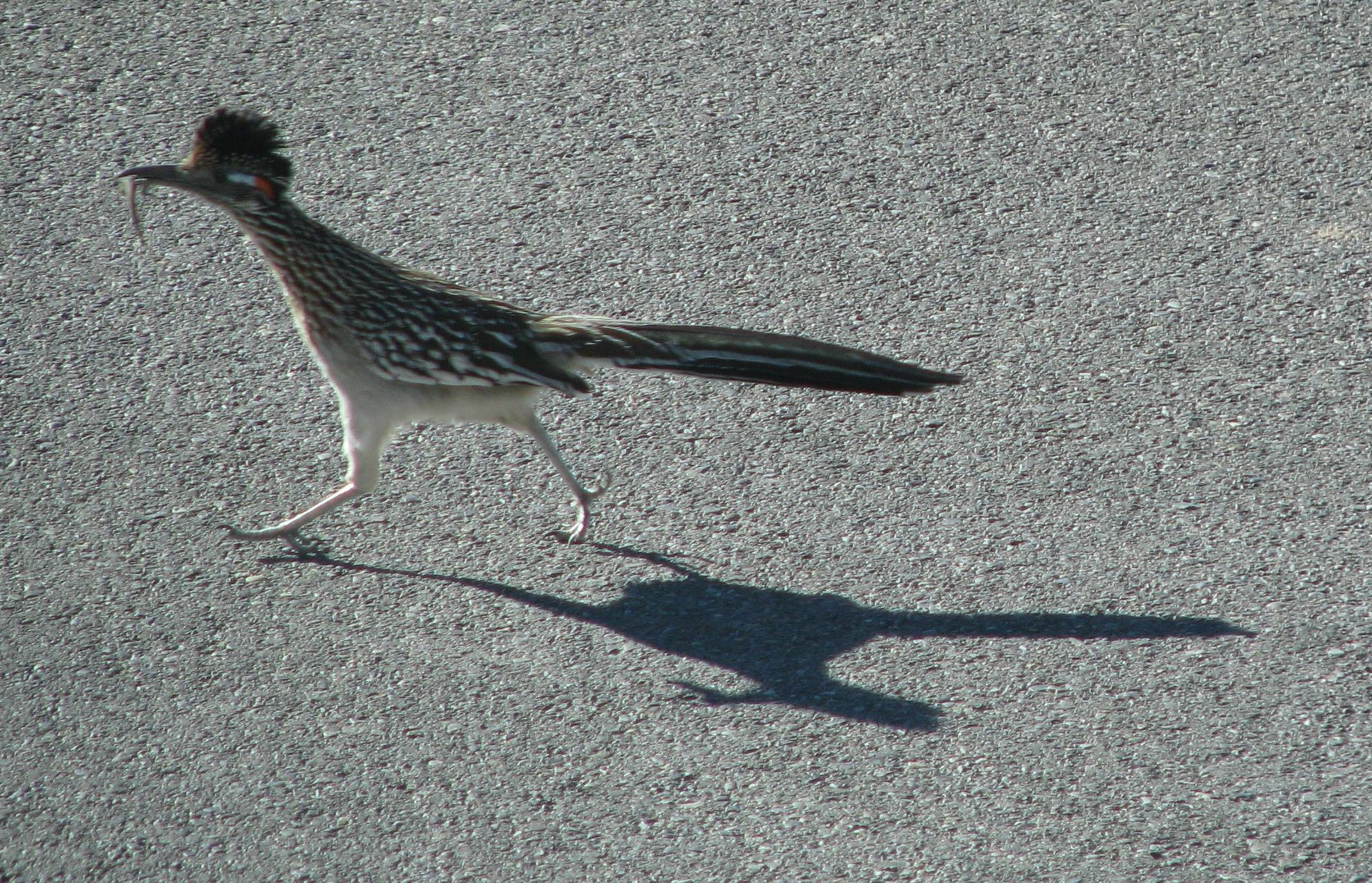 Geococcyx californianus (greater roadrunner) running in Beatty, NV (on the Motel 6 parking lot).